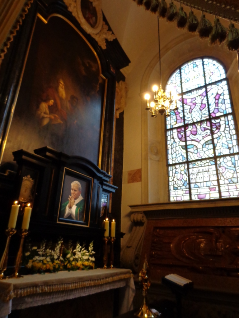 Wawel - Bishop Konarski Chapel